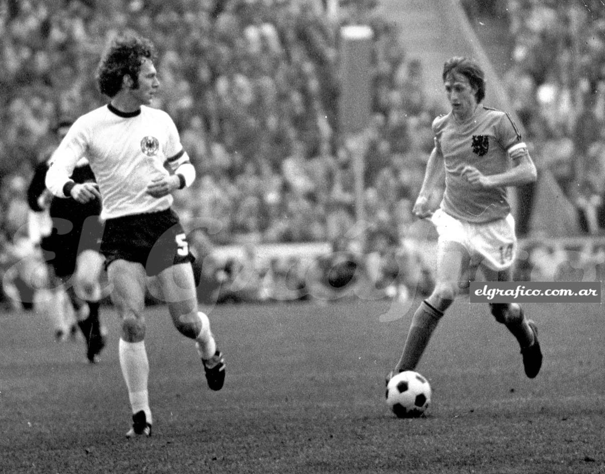 Franz Beckenbauer (left) v. Johan Cruyff at the FIFA World Cup final.